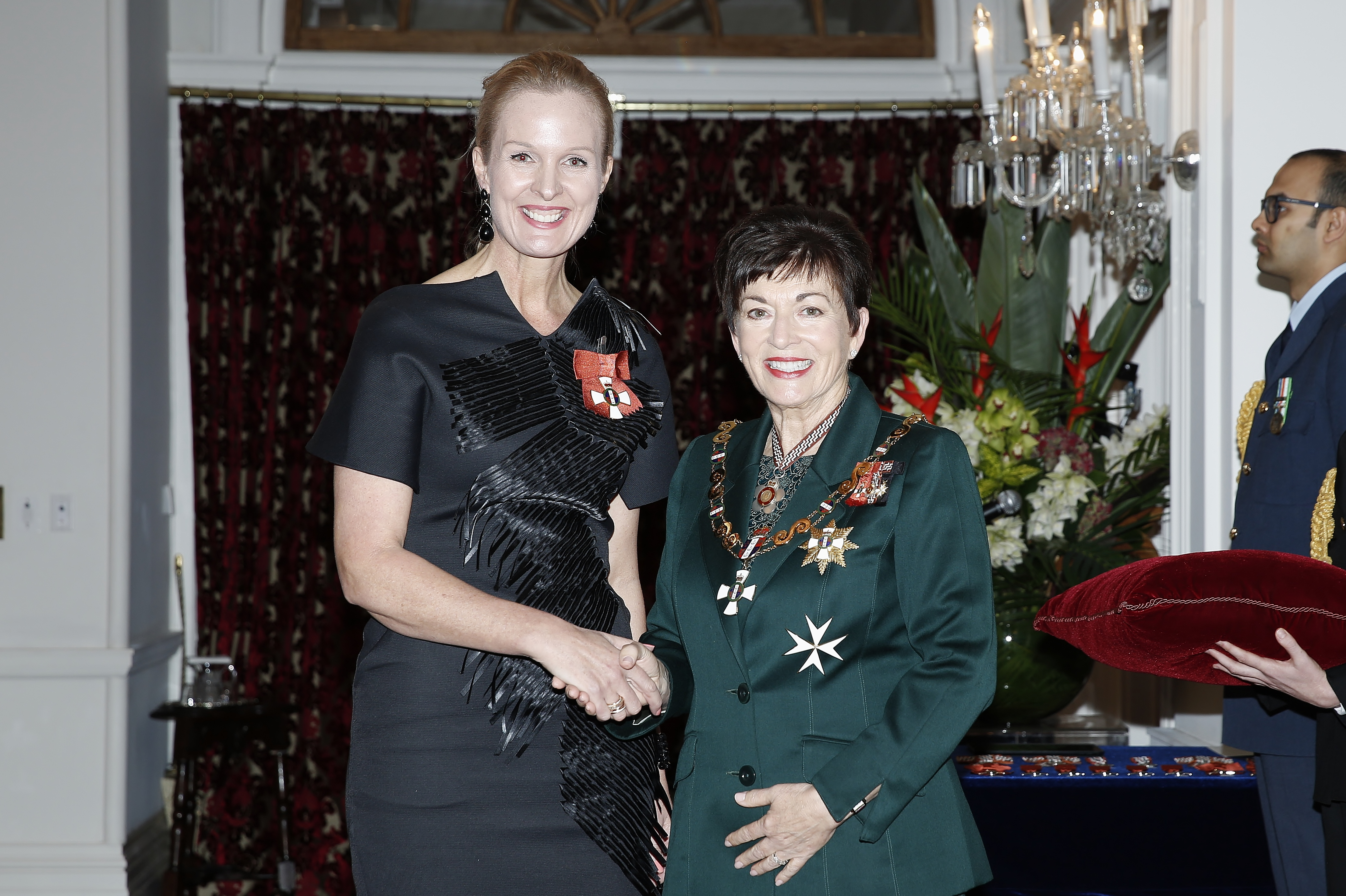 Frances Valintine (left), after her investiture as CNZM, for services to education and the technology sector, by the governor-general, Dame Patsy Reddy, on 14 May 2018